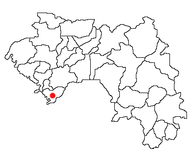 Forécariah, Guinea Location Map; created with the GIMP. Made by User:Acntx.